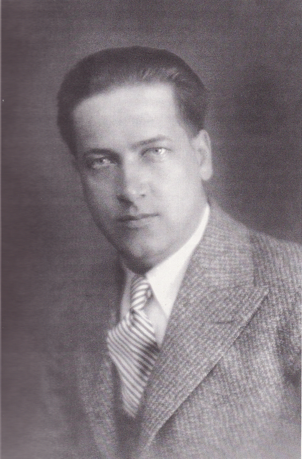 Finnish singer Arvi Hänninen